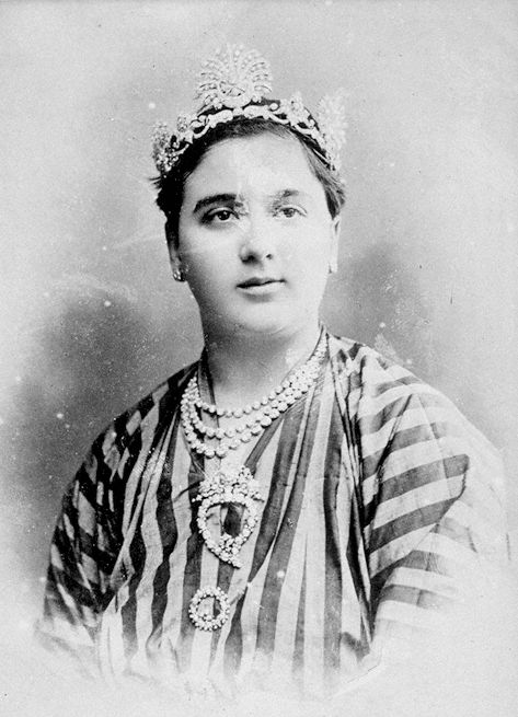 Cecilia Catherina Lange (Zubaidah bt Abdullah), the Sultanah of Johor. Lange is the daughter of Mads Johansen Lange and his Chinese wife Nonna Sangnio; consort to Sultan Abu Bakar of Johor and mother of Sultan Ibrahim of Johor. Even though the National Archives website declared that its works are protected under copyright [1], works that have lapsed at least 50/70 years or more (depending on the country). See pg 81 of [2]. Also, considering that Johor(e) was an Unfederated Malay State under British tutelage, the PD-British Gov copyright laws qualify for this image, and for any image for that matter; photograph taken more than 100 years ago.